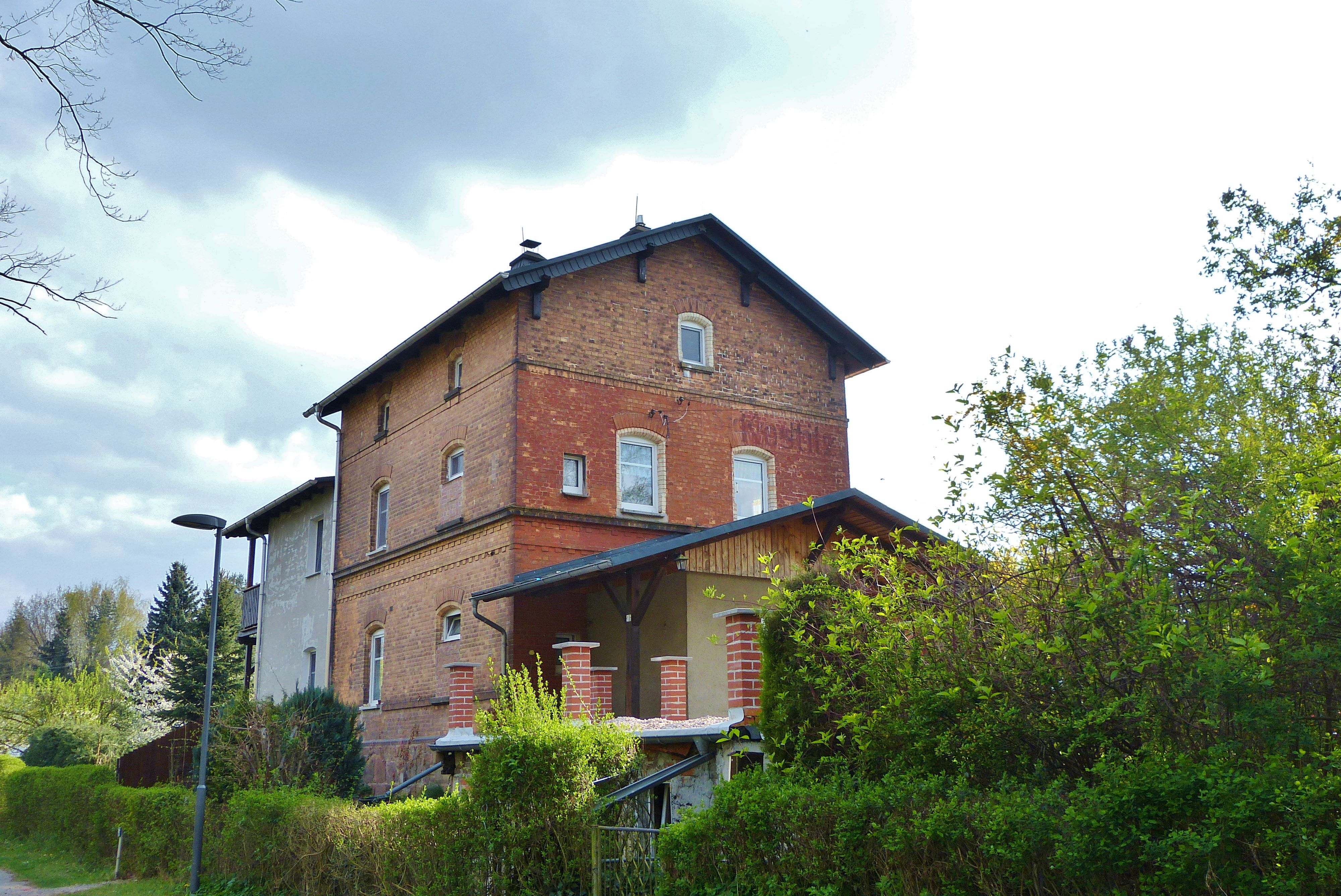 Former railway station in Kostitz